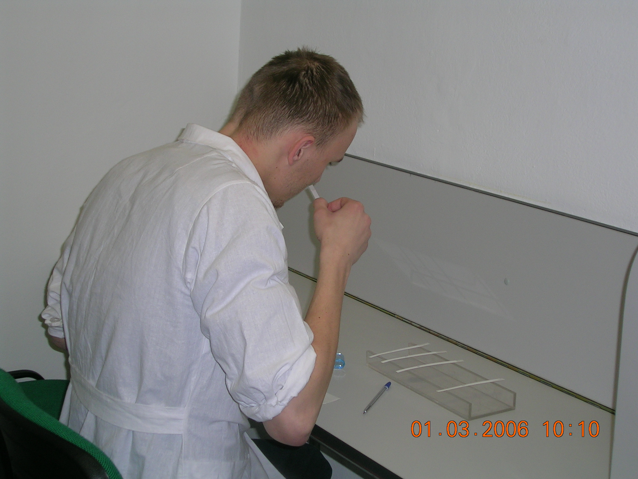 Selection of panel; Jap. (2)